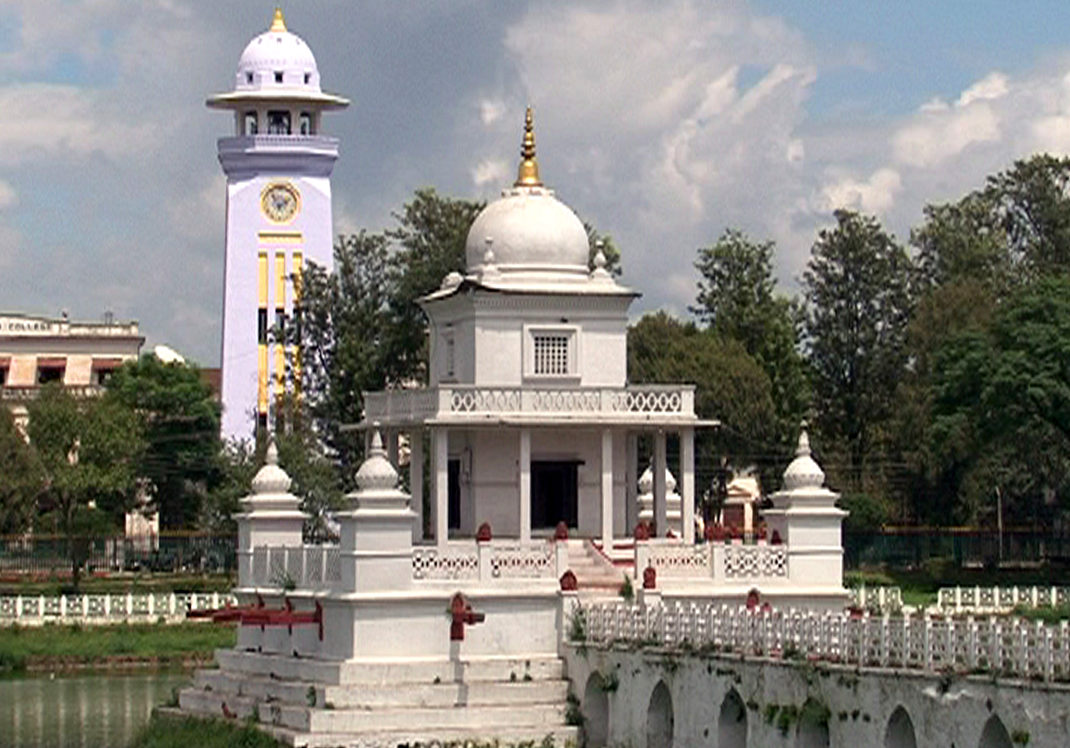 Its the temple at Ranipokhari, Kathmandu.